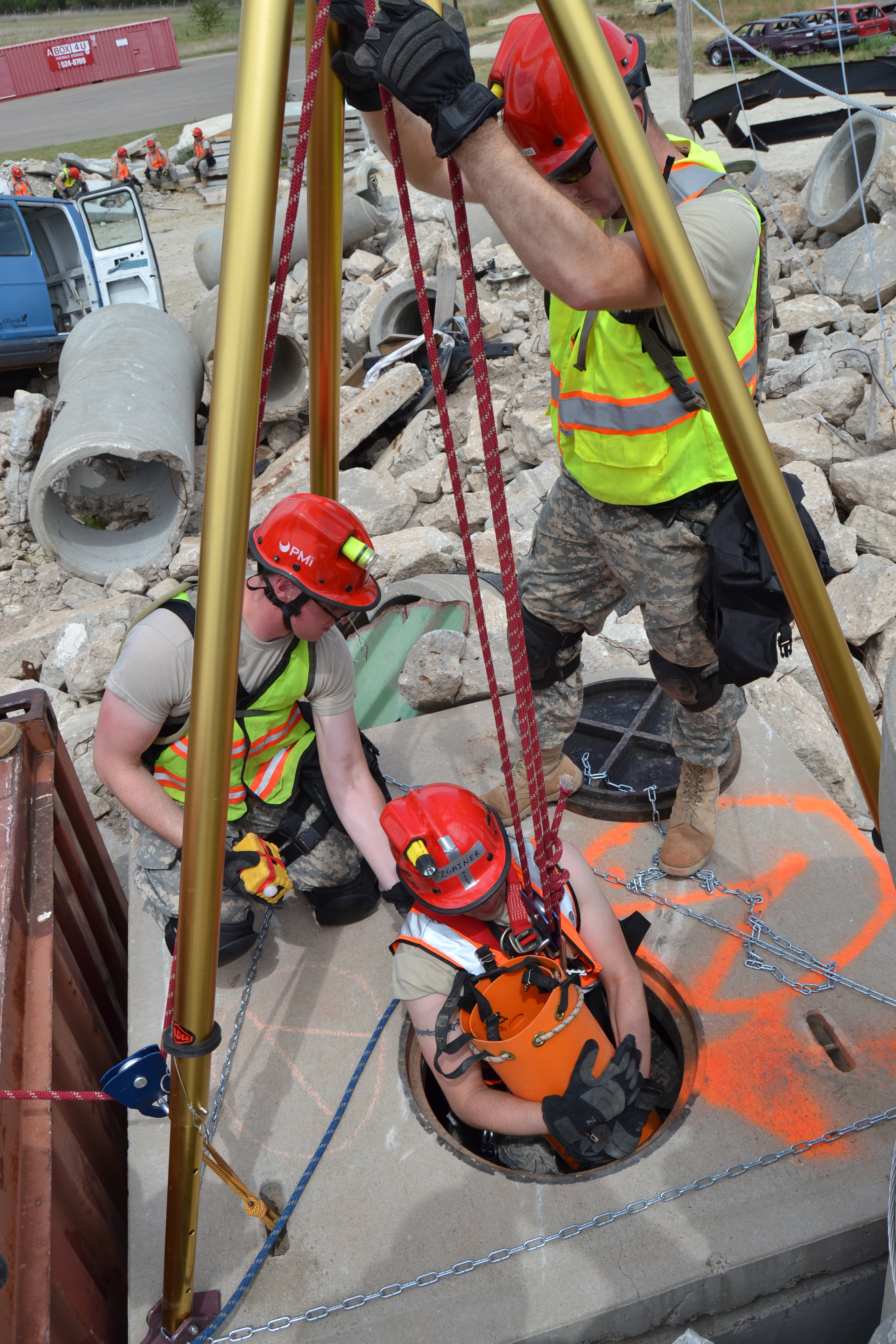 Members of the 623rd Vertical Engineer Company, Nebraska National Guard, Wahoo, Neb., prepare to lower Senior Airman Johnathon Zgainer, medic with the 155th Medical Group, Nebraska National Guard, Lincoln, Nebraska, during confined space training at Vigilant Guard 2014 hosted by Kansas National Guard, at Crisis City, Salina, Kan., Aug. 4-7, 2014. Confined space rescue is the most likely disaster to face a CERFP team in the field. (Photo by Spc. Robert I. Havens, 105th Mobile Public Affairs Detachment)